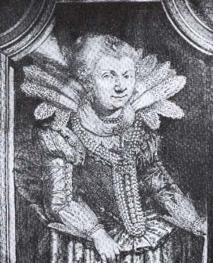 Juliana, 1587-1643, child of Johann VII 1561-1623